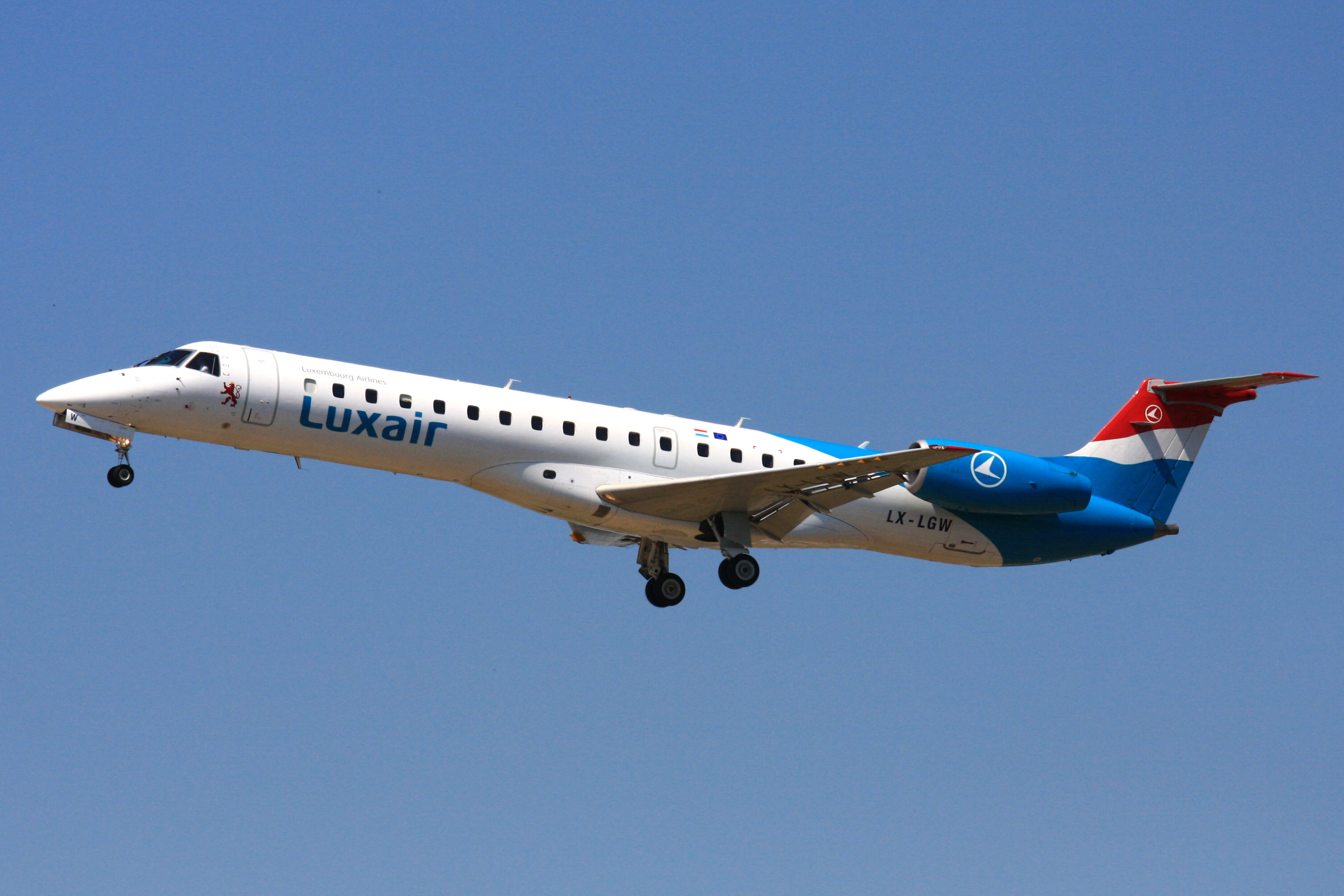 An Embraer 145 of Luxair landing at Frankfurt Airport